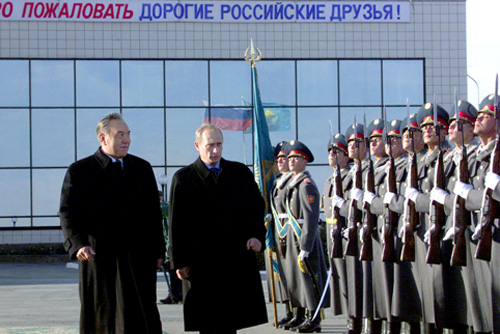 NUR-SULTAN. With President of Kazakhstan Nursultan Nazarbayev at the official welcome ceremony at the airport.